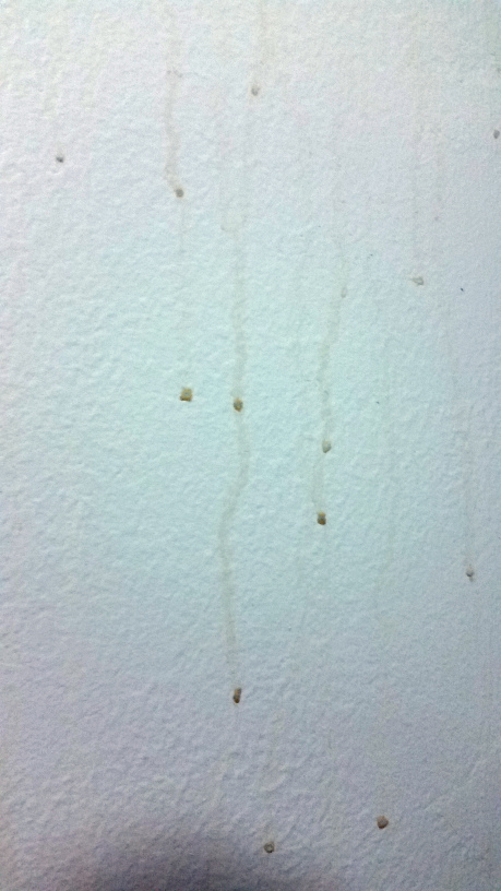 Mysterious runners of brown sticky condensation on new bathroom wall, in a bathroom with filtered air and clean water shower, for illustration on WP:REFDESK/S